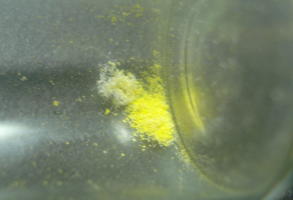 Uranyl Nitrate prepared from Uranium metal by the photographer.